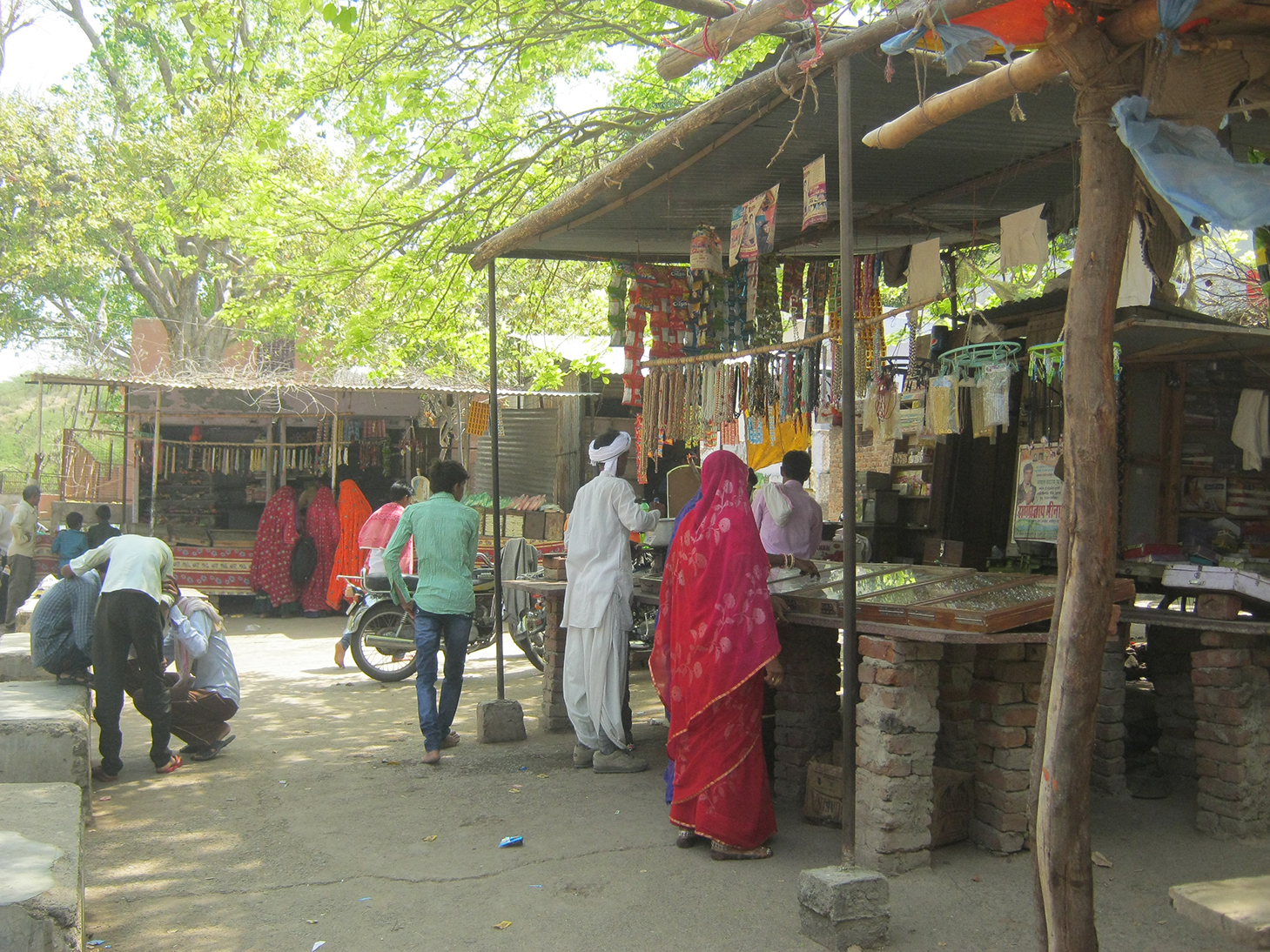 Shops in the campus of Jhajhirampura Shrine